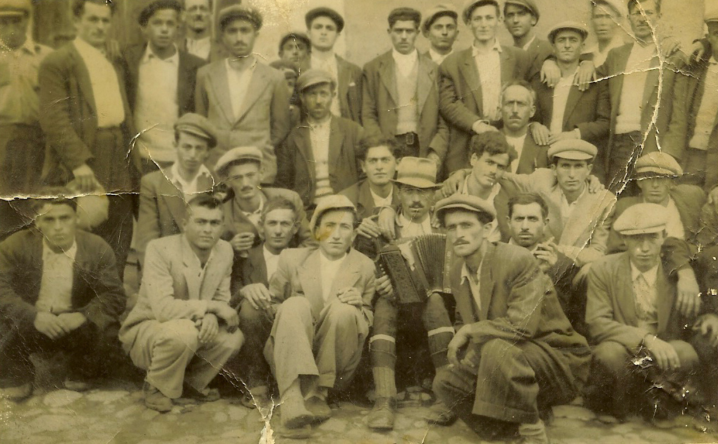 villagers of the Georgian village of Hayriye during the 1960s